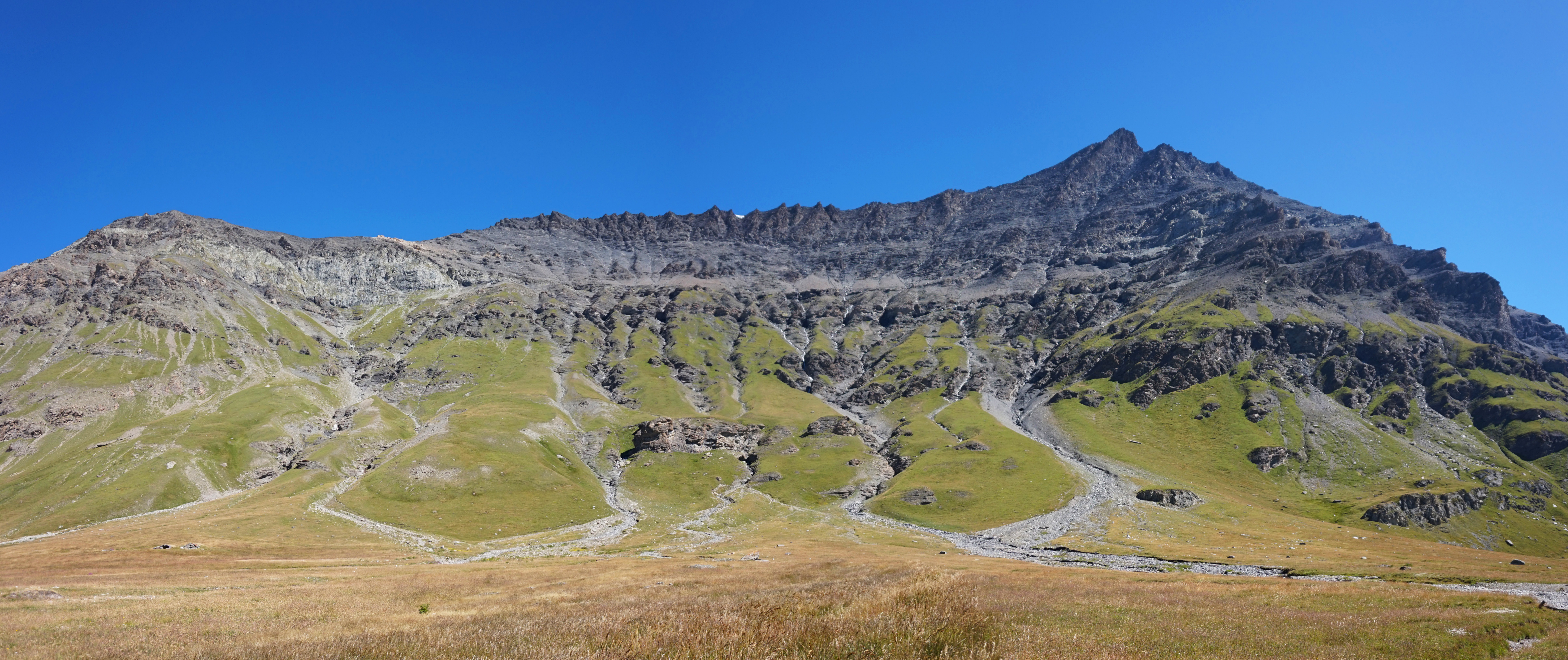 Mountain in Réserve naturelle nationale de la Grande Sassière, France. This photograph was taken with a Sony Alpha a5000.